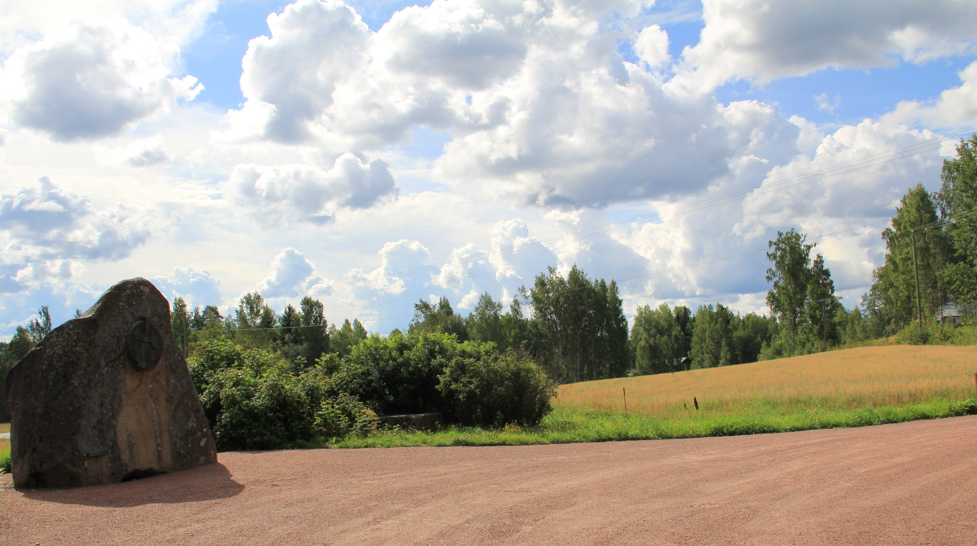 Sampakoski battle monument close to battlefield in Niemenkylä village, Lavia, Pori, Finland. - Sampakoski battle 22nd February, 1918 was a Finnish Civil War battle between Finnish White Guard's and Finnish Red Guards troops. 5 to 10 Whites were killed in action and totally 41 to 49 Reds wee killed in action or executed. The monument is dedicated to both sides of the battle. It was unveiled in 1998, relief was designed by finnish sculptor Pertti Mäkinen (b. 1952).